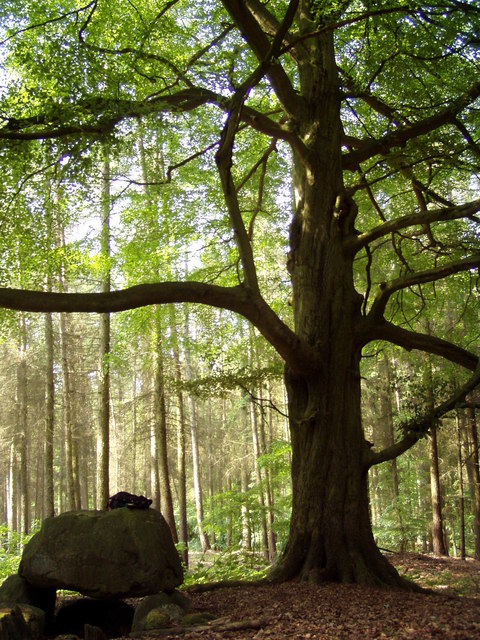 Forst Cammin